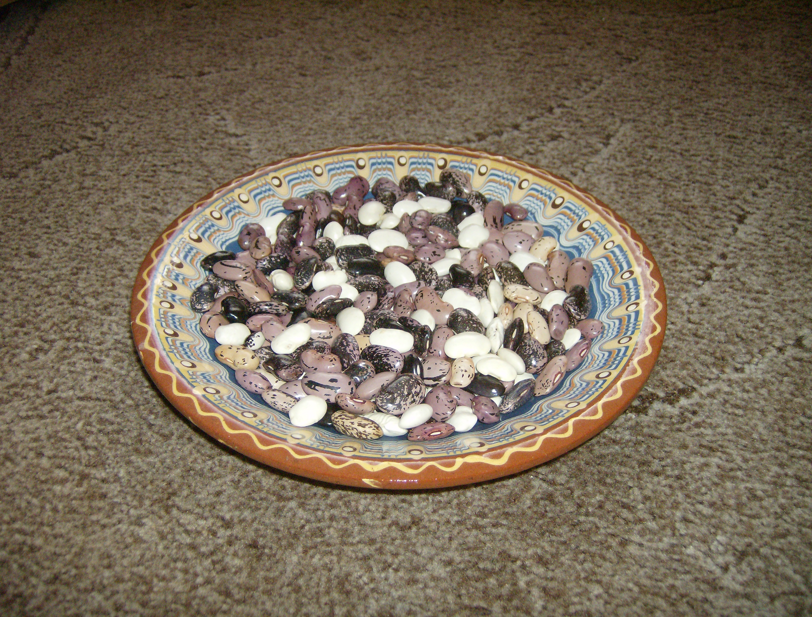 Smilyan beans